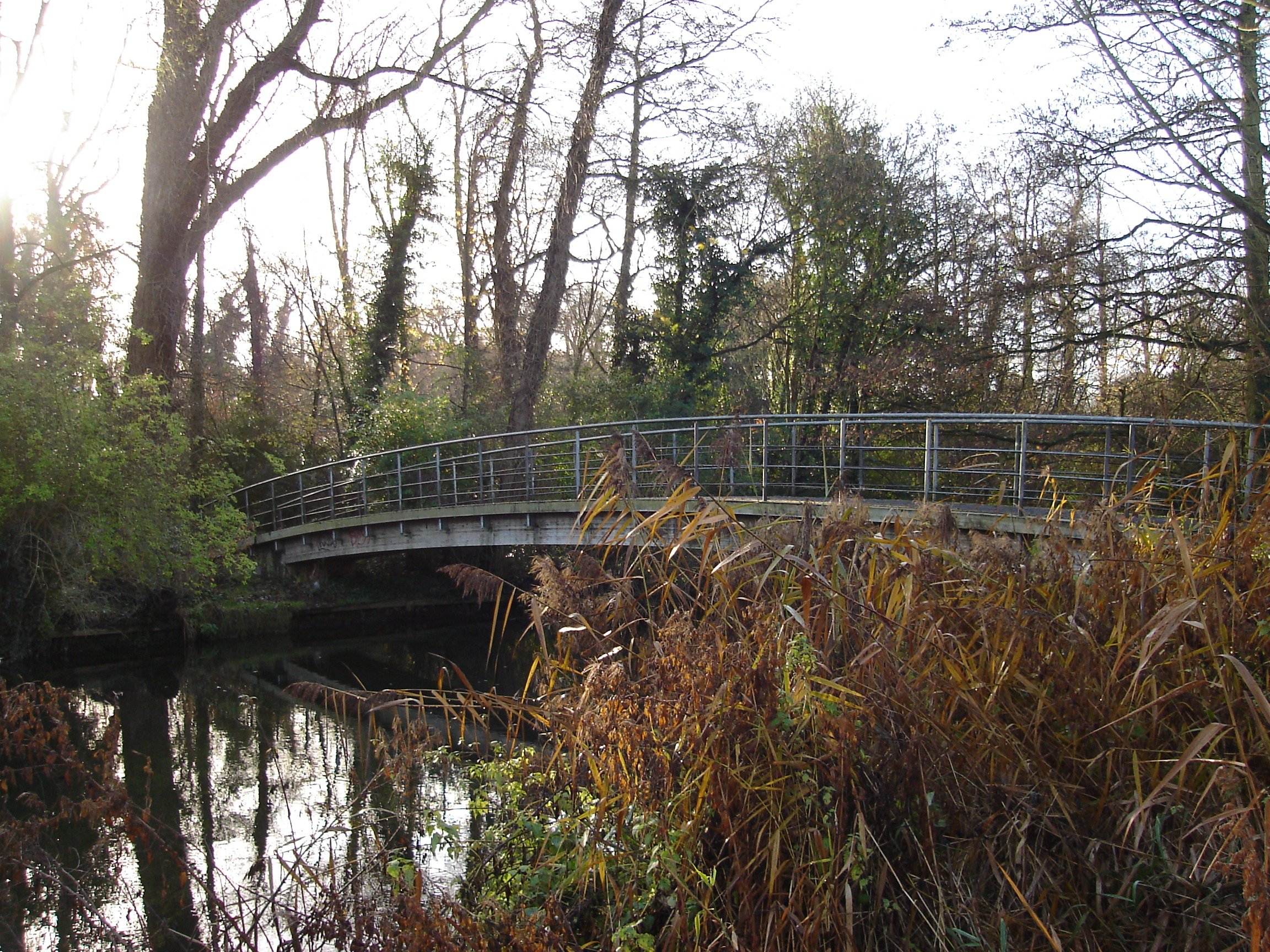 The Sycamore Crescent footbridge spans the River Wensum at the Wensum Local Nature Reserve Norwich. The bridge was built in 1997.